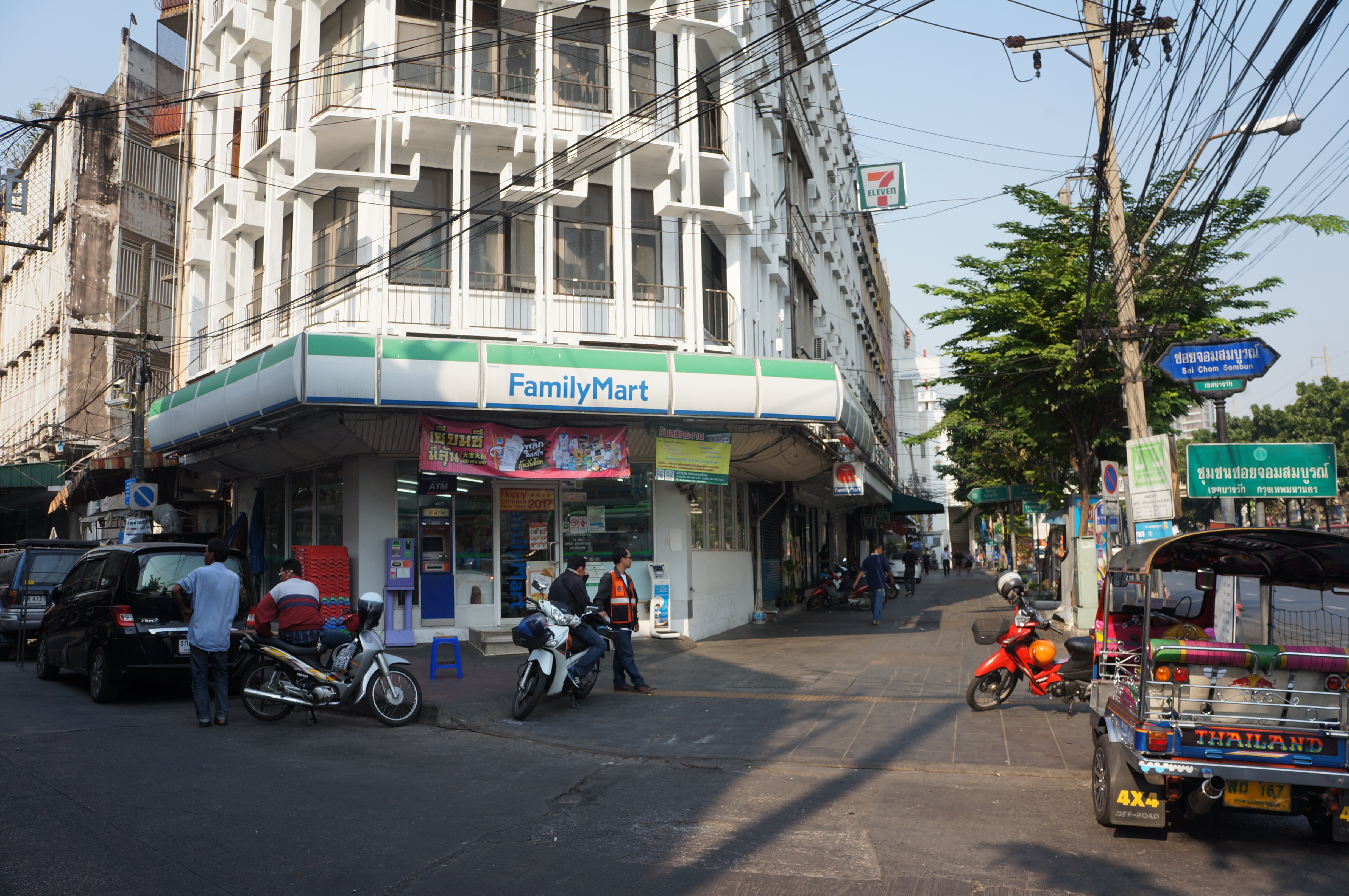 201701 FamilyMart Store in Soi Chom Sombun